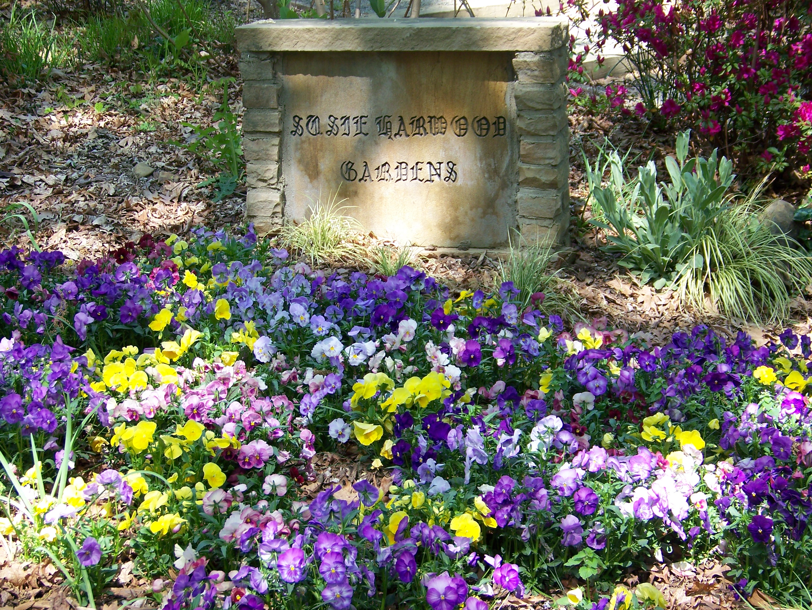 HarwoodGarden